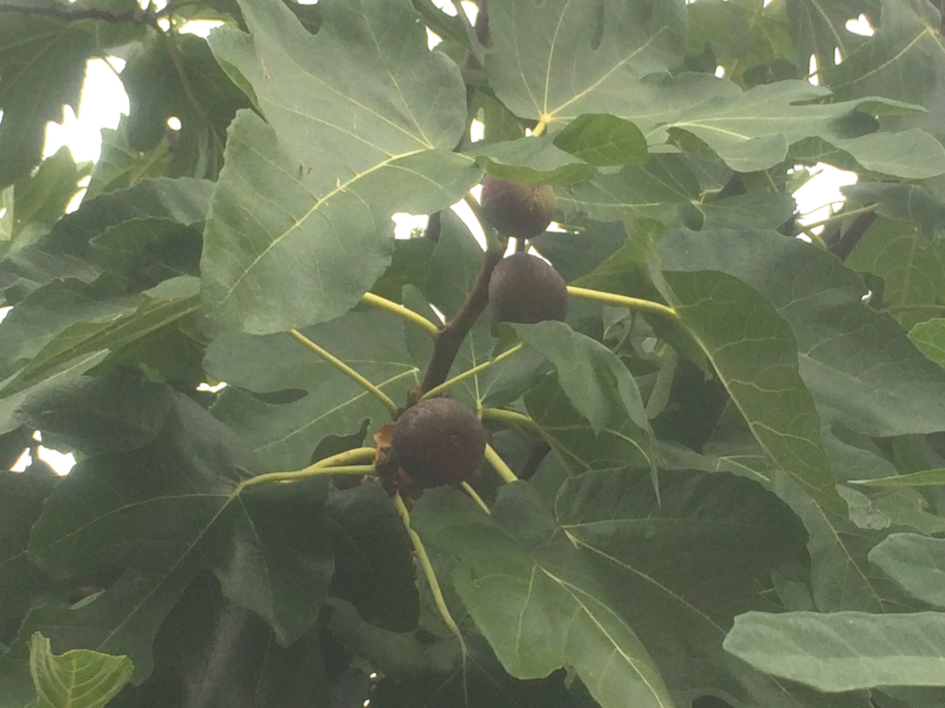 Fig 'Carballera Negra', Solana del Pino, Spain